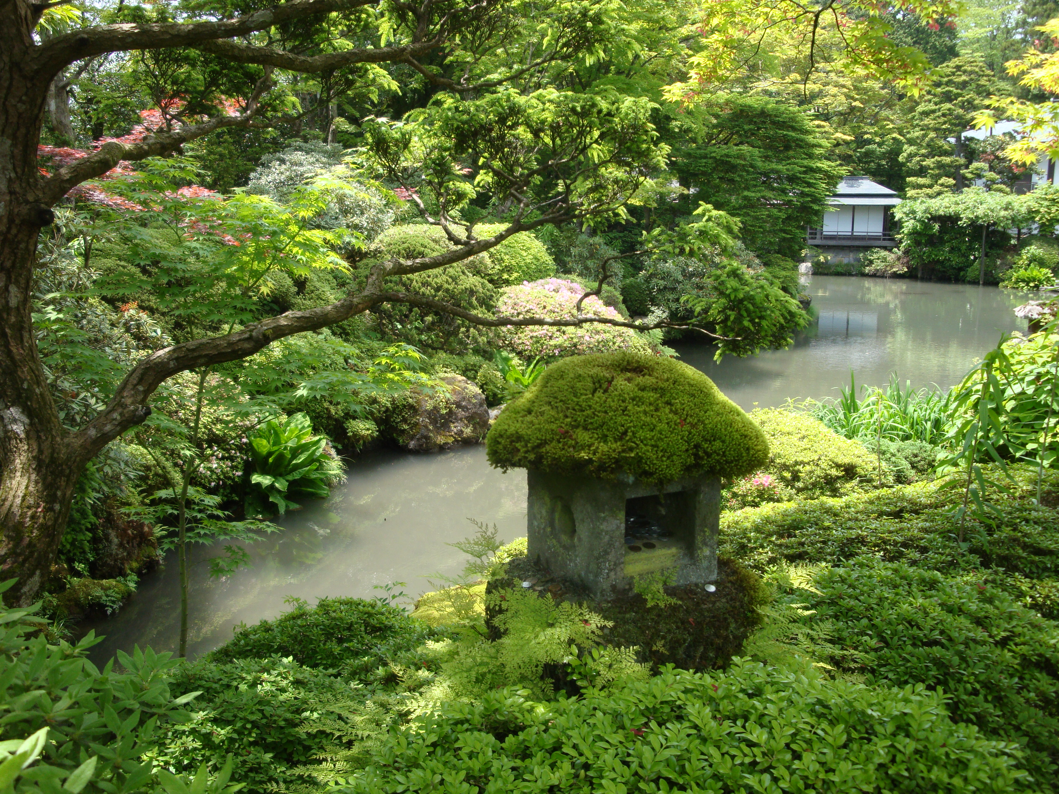 Shōyō-en Garden in Rinno-ji Temple, Nikko. A stone lantern.